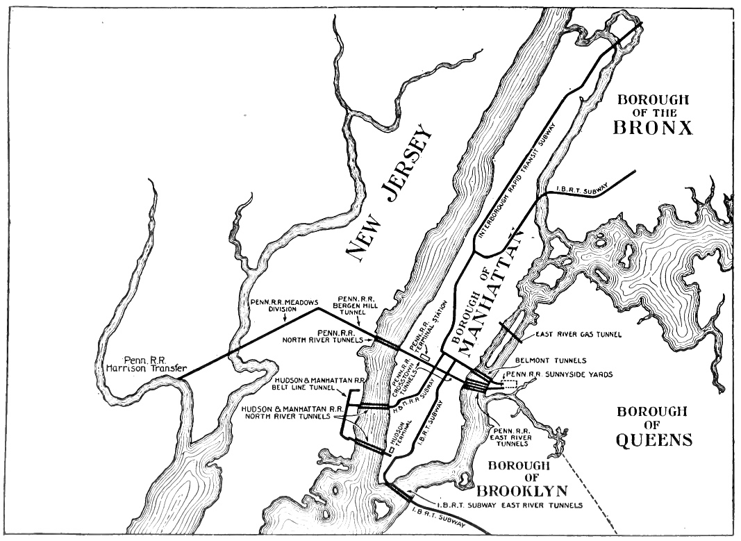 Tunnels and Subways of New York and Suburban Territory 1912